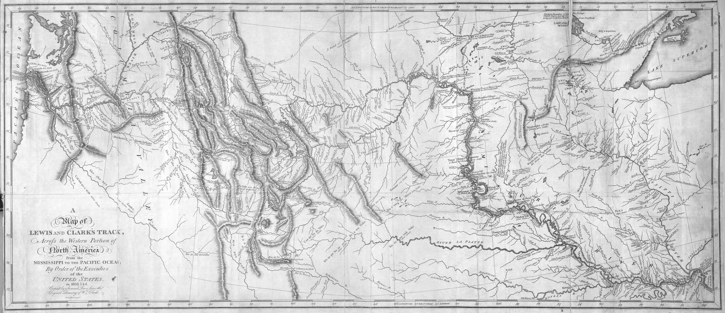 This account of the Lewis and Clark Expedition, published in 1814, is based on the detailed journals kept by Captains Meriwether Lewis and William Clark, the leaders of expedition. The book begins with “Life of Captain Lewis,” written by Thomas Jefferson, which reproduces Jefferson’s detailed instructions to Lewis regarding the goals of the expedition. “The object of your mission is to explore the Missouri River, and such principal streams of it, as, by its course and communication with the waters of the Pacific Ocean, whether the Columbia, Oregan [sic], Colorado, or any other river, may offer the most direct and practicable water communication across the continent, for purposes of commerce.” The 29-man Corps of Discovery set out from St. Louis on May 14, 1804. In the next 28 months, Lewis and Clark traveled more than 12,000 kilometers through unfamiliar terrain inhabited by Indian tribes. By the end of 1804, they had made it to the Great Bend of the Missouri River. In 1805, they journeyed up the Missouri, across the Rocky Mountains, and down the Columbia River to the Pacific Ocean. After suffering through a dismal winter, the members of the expedition began their long return journey, finally reaching Saint Louis on September 23, 1806. Clark, William, 1770-1838; Columbia River; Description and travel; Lewis and Clark Expedition (1804-1806); Lewis, Meriwether, 1774-1809; Missouri River; Rivers; West (United States)